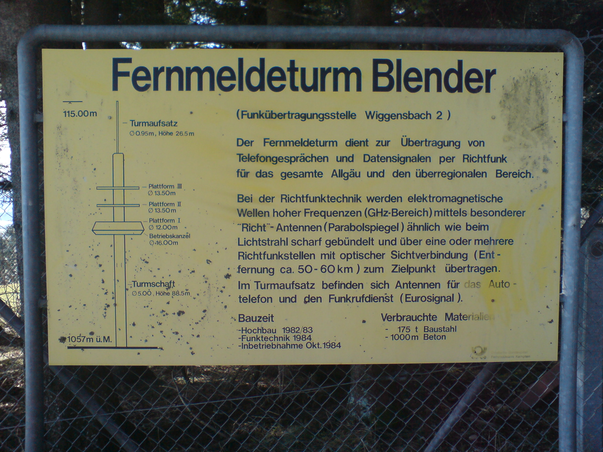 sign at the socket of the Blender (mountain)